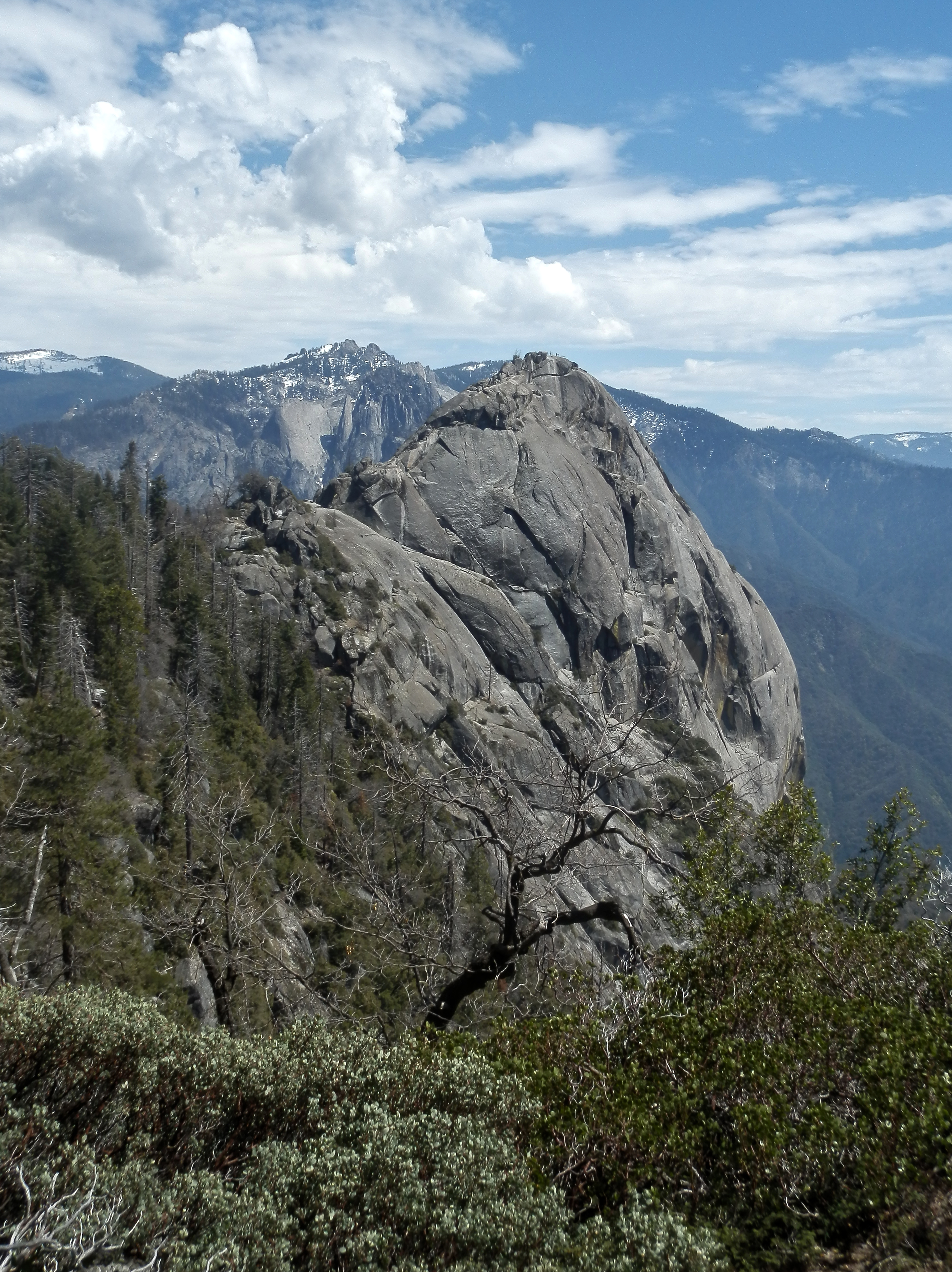 View on Moro Rock